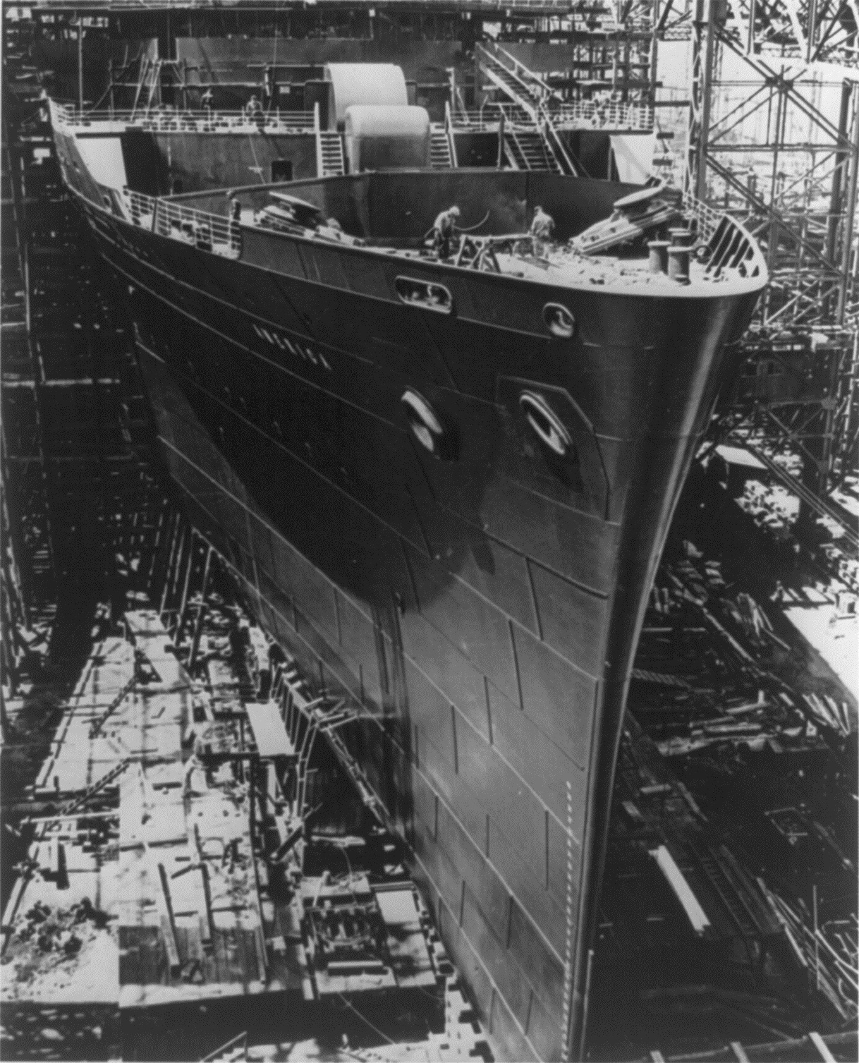 .Hull of the SS AMERICA under construction